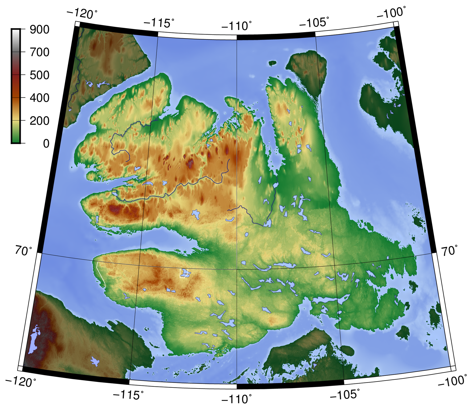 Topography of Victoria Island, created with GMT 5.2.1